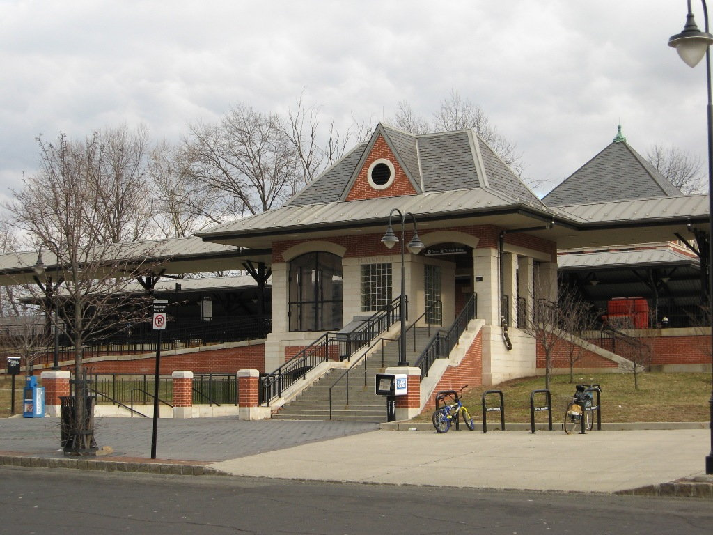 Plainfield Station looking from North Avenue.